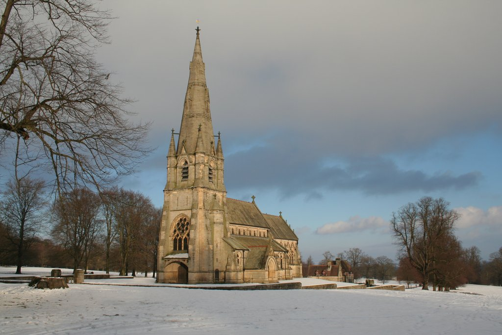 St Mary's parish church, Studley Royal, North Yorkshire, in snow